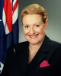 Portrait of Mrs B K Bishop